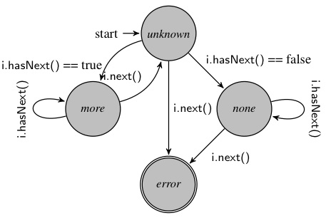 This is a finite state machine for the has next property. It was generated specifically for this article using latex TiKz package